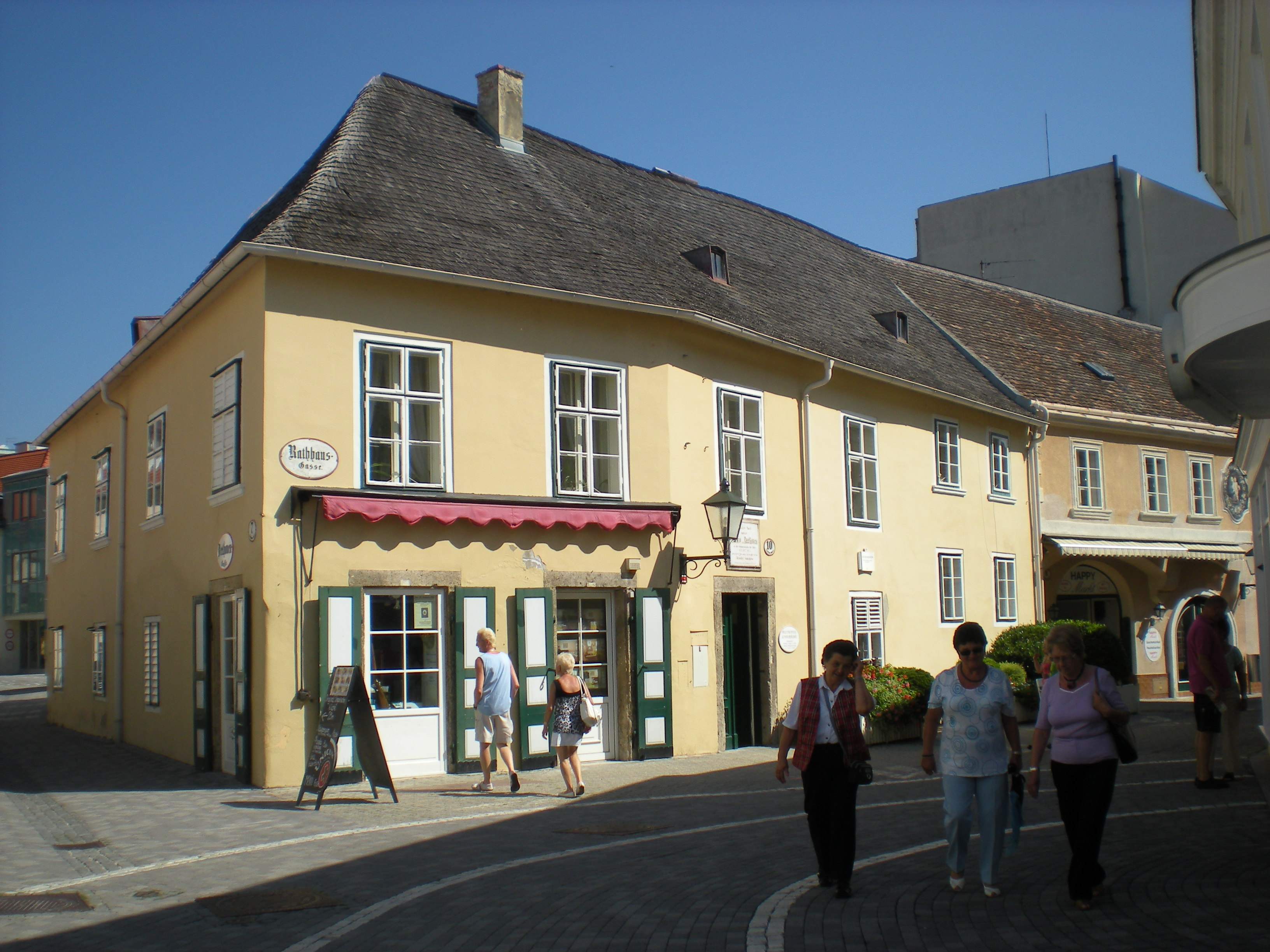 So-called "Beethoven house" at Rathausstraße 10, Baden bei Wien, Lower Austria